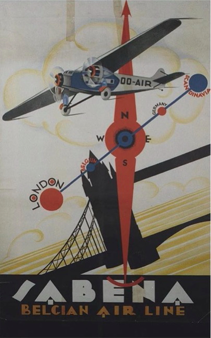 Poster from the Don Thomas Collection. Mr. Thomas was a collector of aircraft memorabilia who donated several posters to the San Diego Air and Space Museum. Repository: San Diego Air and Space Museum Archive